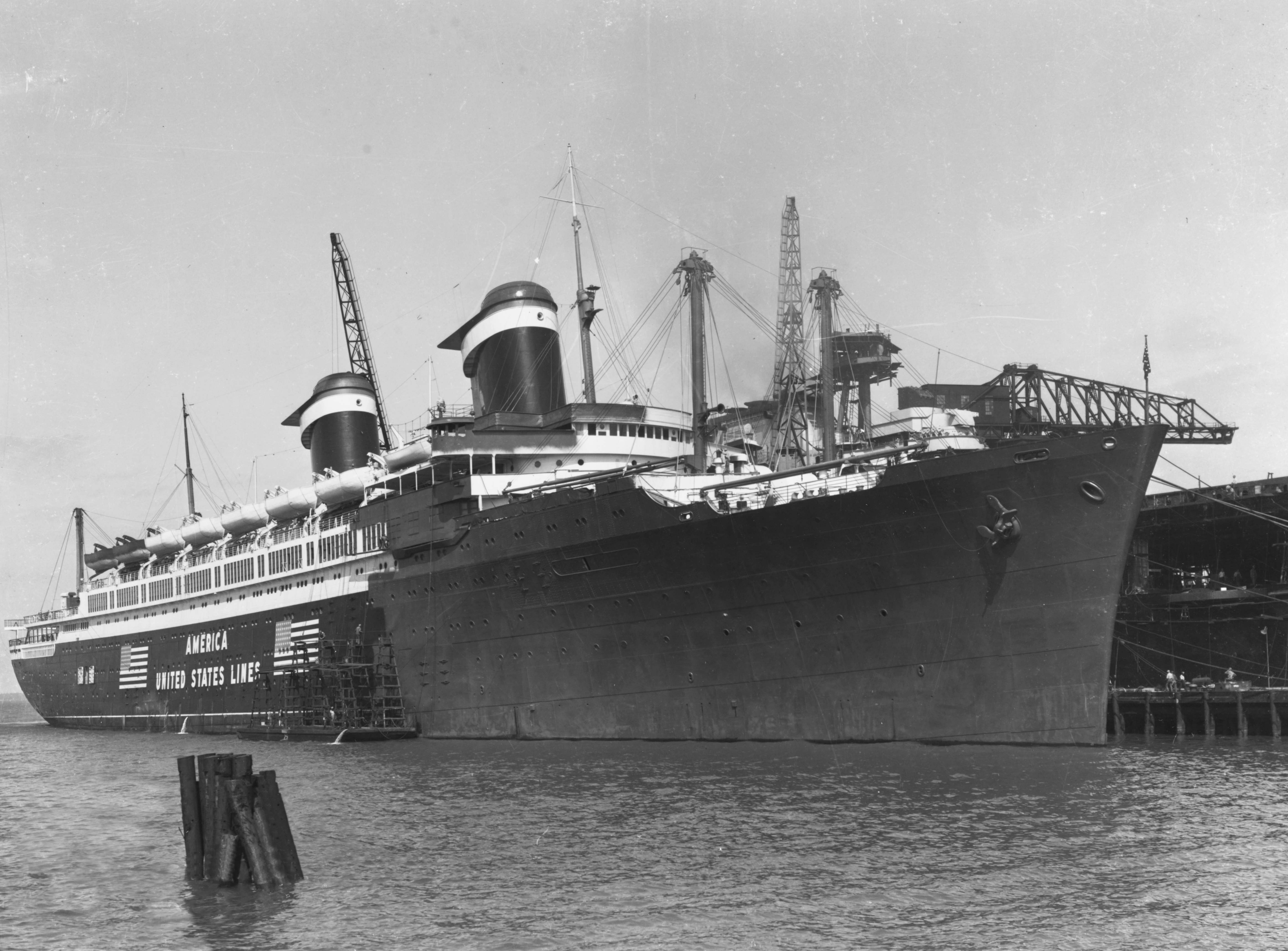 The U.S. Navy troop transport USS West Point (AP-23) under initial conversion and painting at Newport News Shipbuilding and Drydock Co., Virginia (USA), 2 June 1941. She was previously SS America. The aircraft carrier USS Hornet (CV-8) is in the background. Note the neutrality markings on West Point's side and the repainting operations.